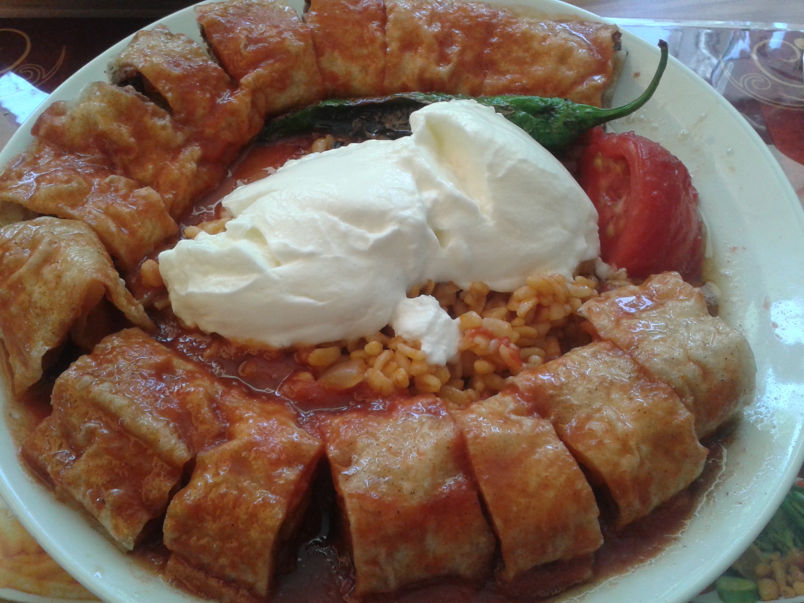 Beyti is a Turkish meat (veal) dish (also considered a kebab) made with pieces of meat wrapped into a "yufka", like a dürüm, and then served with yogurt and tomato sauce. The meat inside the dürüm can be prepared (sauteed, grilled) for this plate or the readily cooked meat of some other plate, such as "döner" in this case, can be used.)